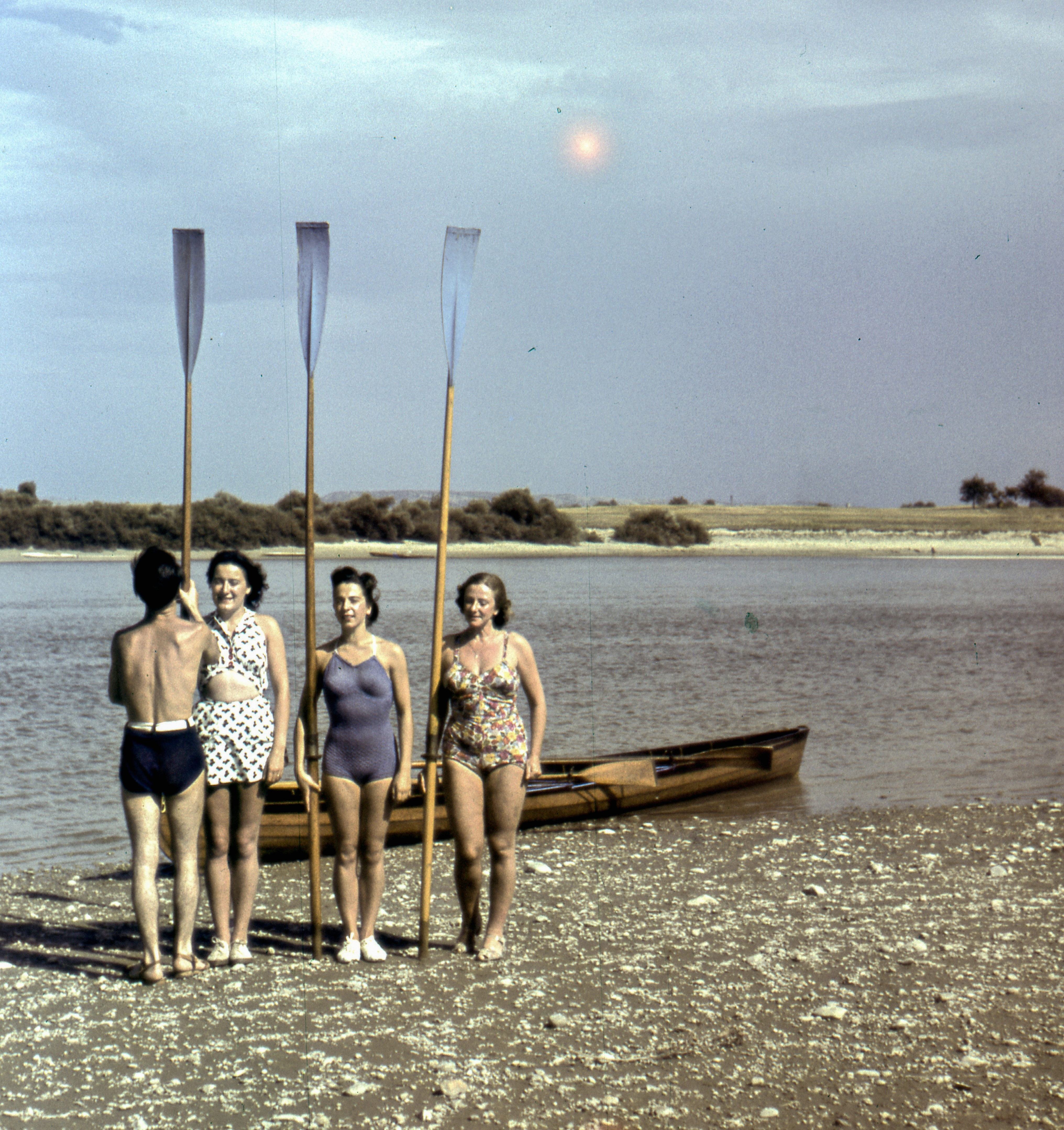 Hungary, Agfacolor (probably) Tags: bathing suit, women, tableau, paddle, boat, colorful